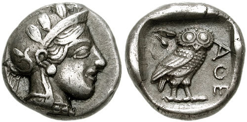 Athens, 449-420 BC. Silver Drachma (14mm, 4.17 gm). Helmeted head of Athena right / ΑΘΕ (ΑΘΗΝΑΙΩΝ - of Athenians), Owl standing right, olive sprig to left; all within incuse square.